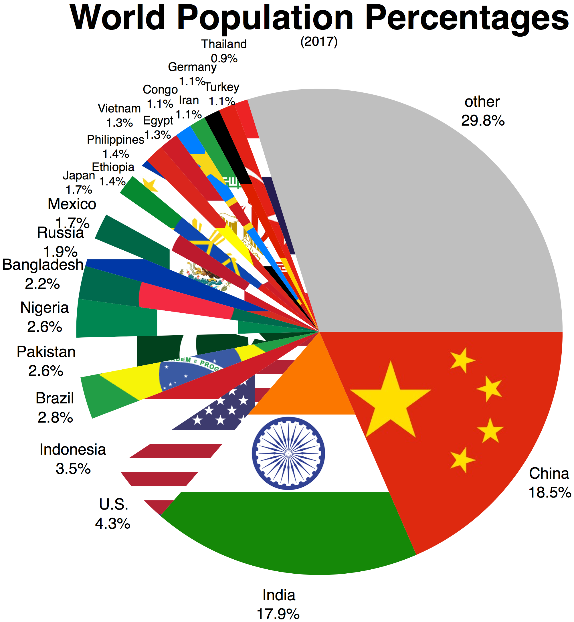 World population percentage by country